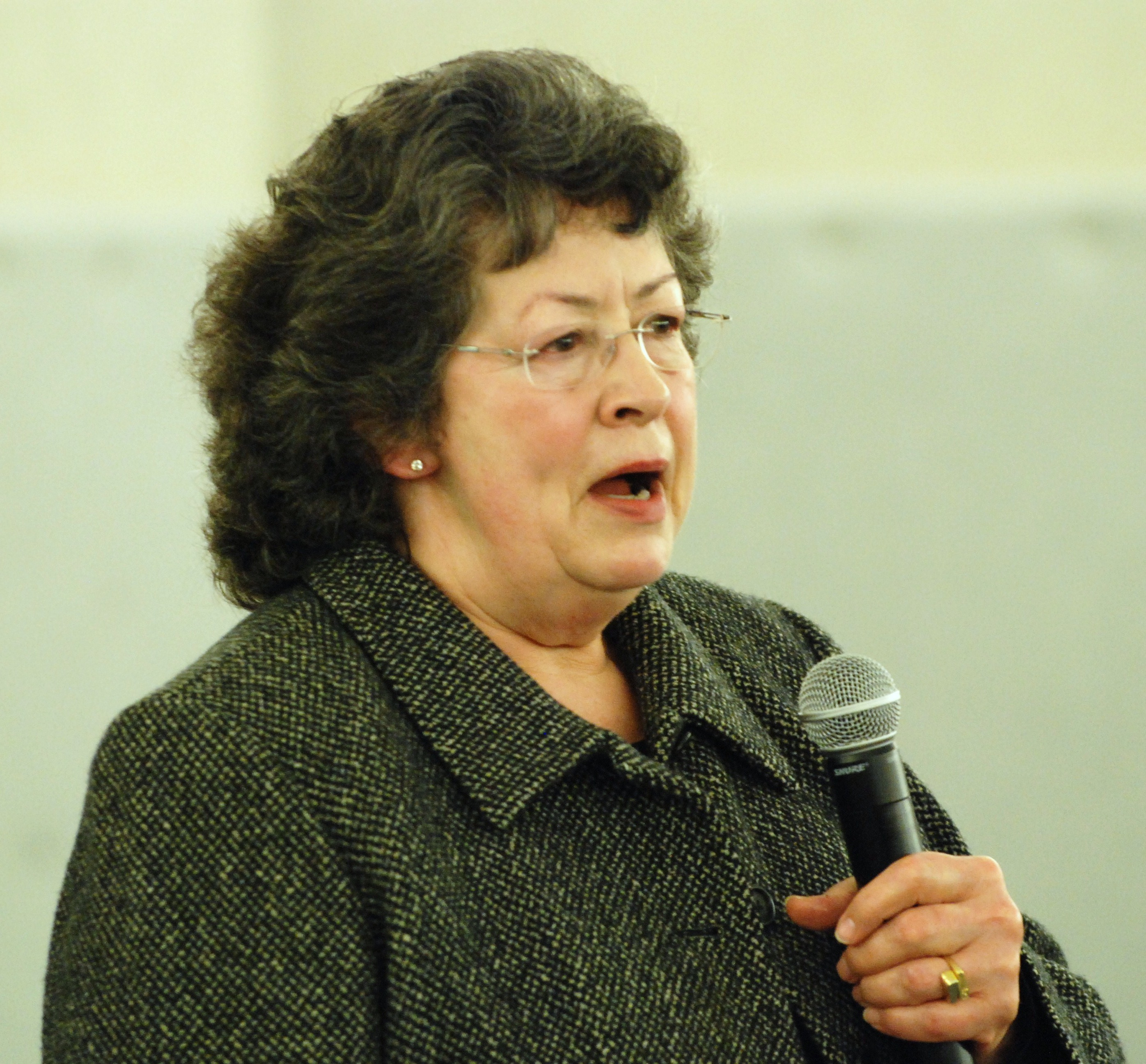 Washington State Senator Maralyn Chase.